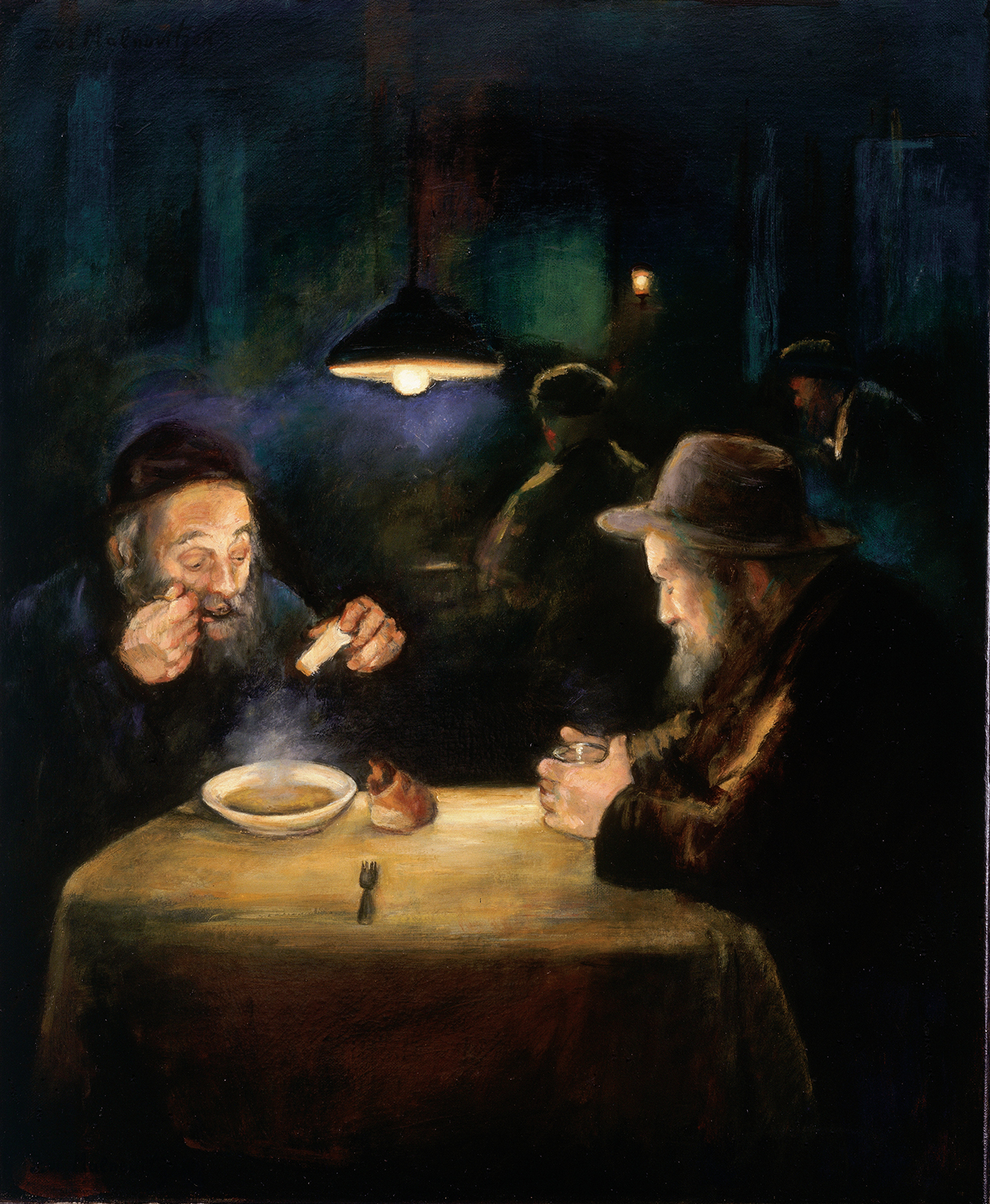 Soap kitchen 2001